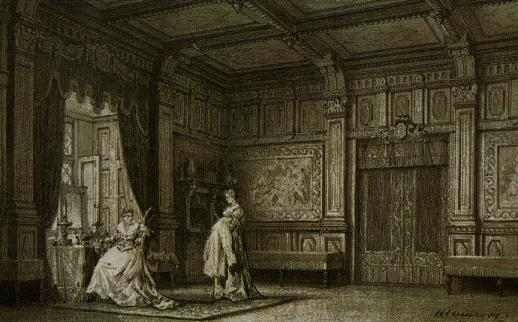 Shishkov design for Marina's Boudoir scene from Boris Godunov (1874)